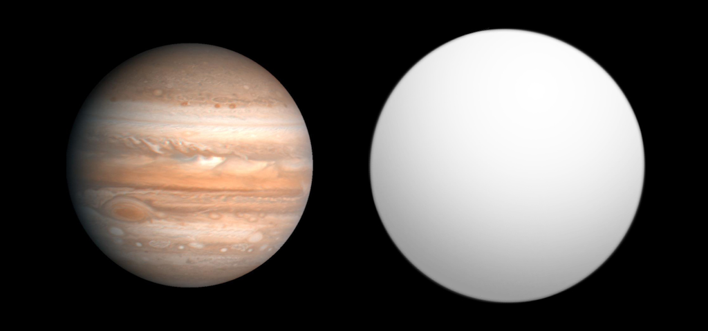 Comparison of best-fit size of the exoplanet WASP-22 b with the Solar System planet Jupiter, as reported in the Open Exoplanet Catalogue[1] as of 2015-11-14. ↑ Open Exoplanet Catalogue (2015-11-14). Retrieved on 2015-11-14.